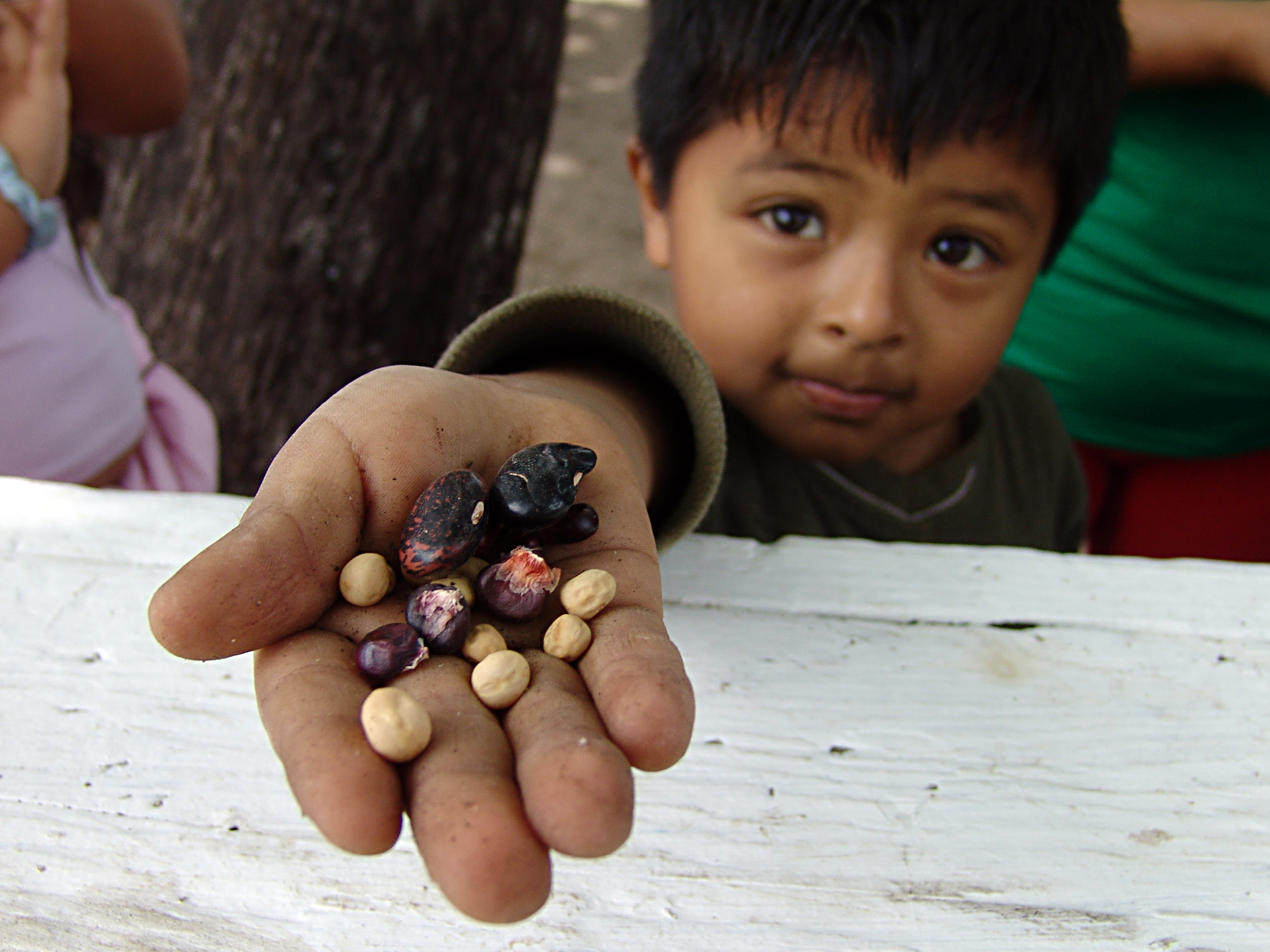 South Central Farm in the city of Los Angeles California. The 14 acres located at 41st and Alameda St. is one of the largest urban gardens in the United States.